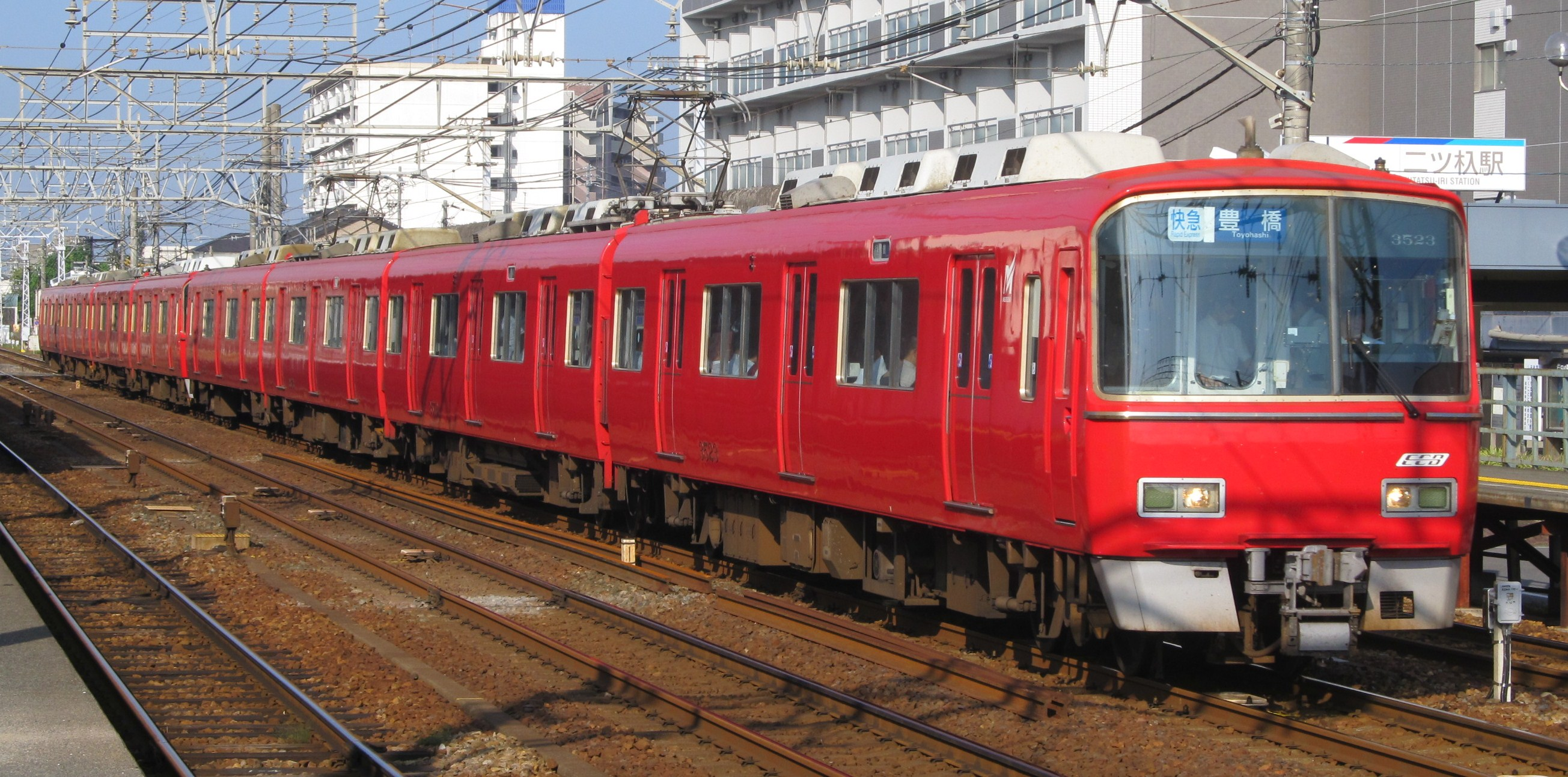 Meitetsu 3500 series. Rapid Express bound for Toyohashi.